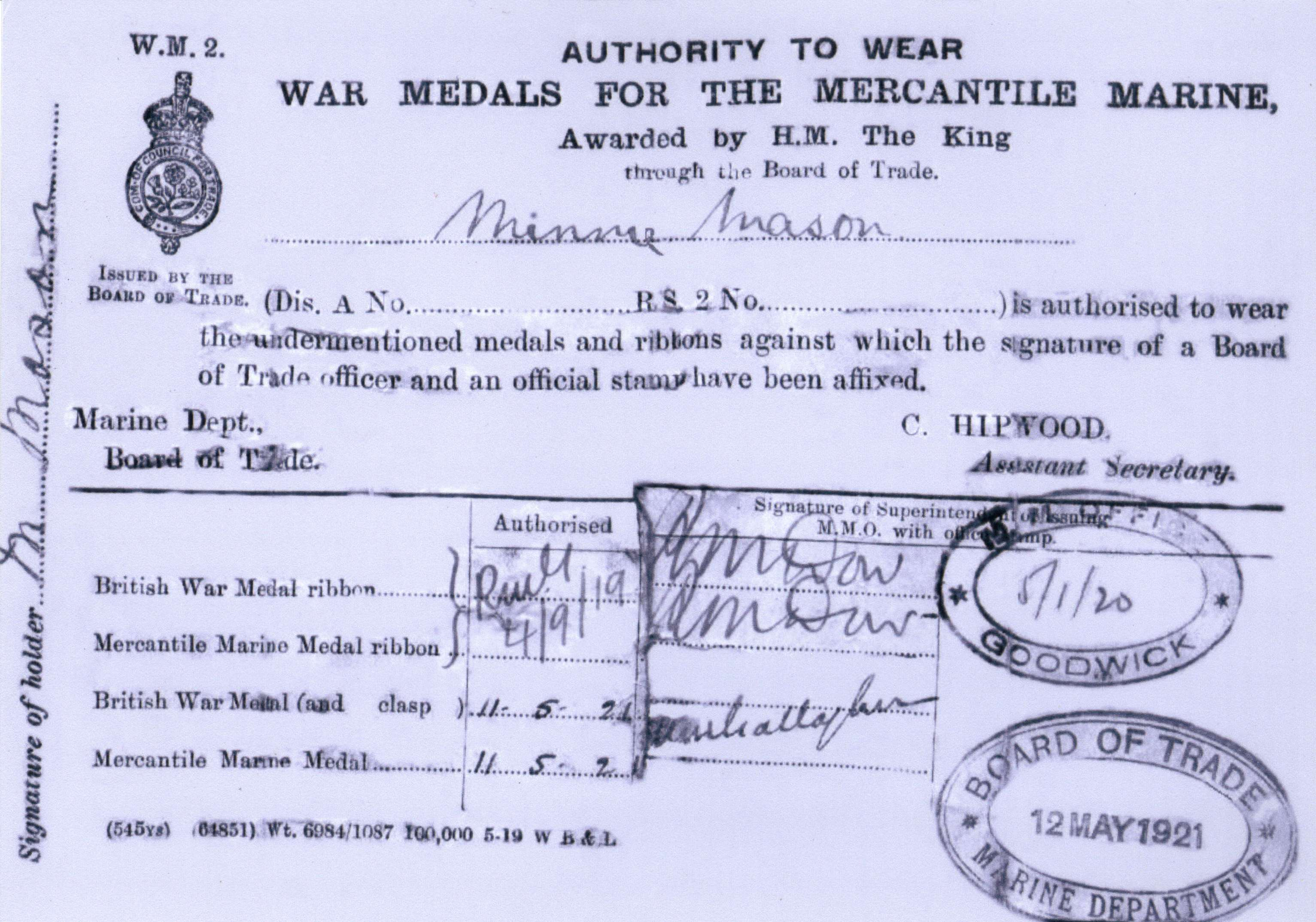 Minnie Mason was my great-grandmother and she was by all accounts ‘a tough cookie’. She was born Mary Joseph [sic] Devereux on 24 May 1872, in Johnstown, Waterford, the daughter of a merchant, James Devereux. She joined the Mercantile Marine about 1896 as a stewardess and worked on the cross-channel ferries until her death in 1927. Through her work she met and married Joseph Mason, a ship’s steward from Liverpool. They had one daughter, Evelyn Mary, who was born in Liverpool on 15 July 1900. The baby was taken back to Waterford and placed in the care of Minnie’s sister Johanna while both parents resumed their jobs on the ferries. Sometime around 1912, Joseph Mason disappeared. It was rumoured that he had been on the Titanic but other stories suggested he had gone to the United States. Minnie continued to work on the cross-channel ferries during WW1 despite the danger from German U-Boats active in the Irish Sea and St George’s Channel. When the war was over she was awarded the British War Medal with clasp and the Mercantile Marine medal. In 1927, as her ship was docking at Rosslare Harbour she suffered a stroke and died, aged 55 years. Her funeral was attended by the indoor and outdoor staff of the Great Western Steam Shipping Company. She is buried in Ballygunner cemetery in Waterford.